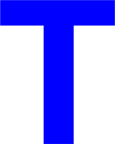 Enblem of the International Tempestclass